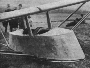 Poppenhausen flying with the London Gliding Club, Summer 1930